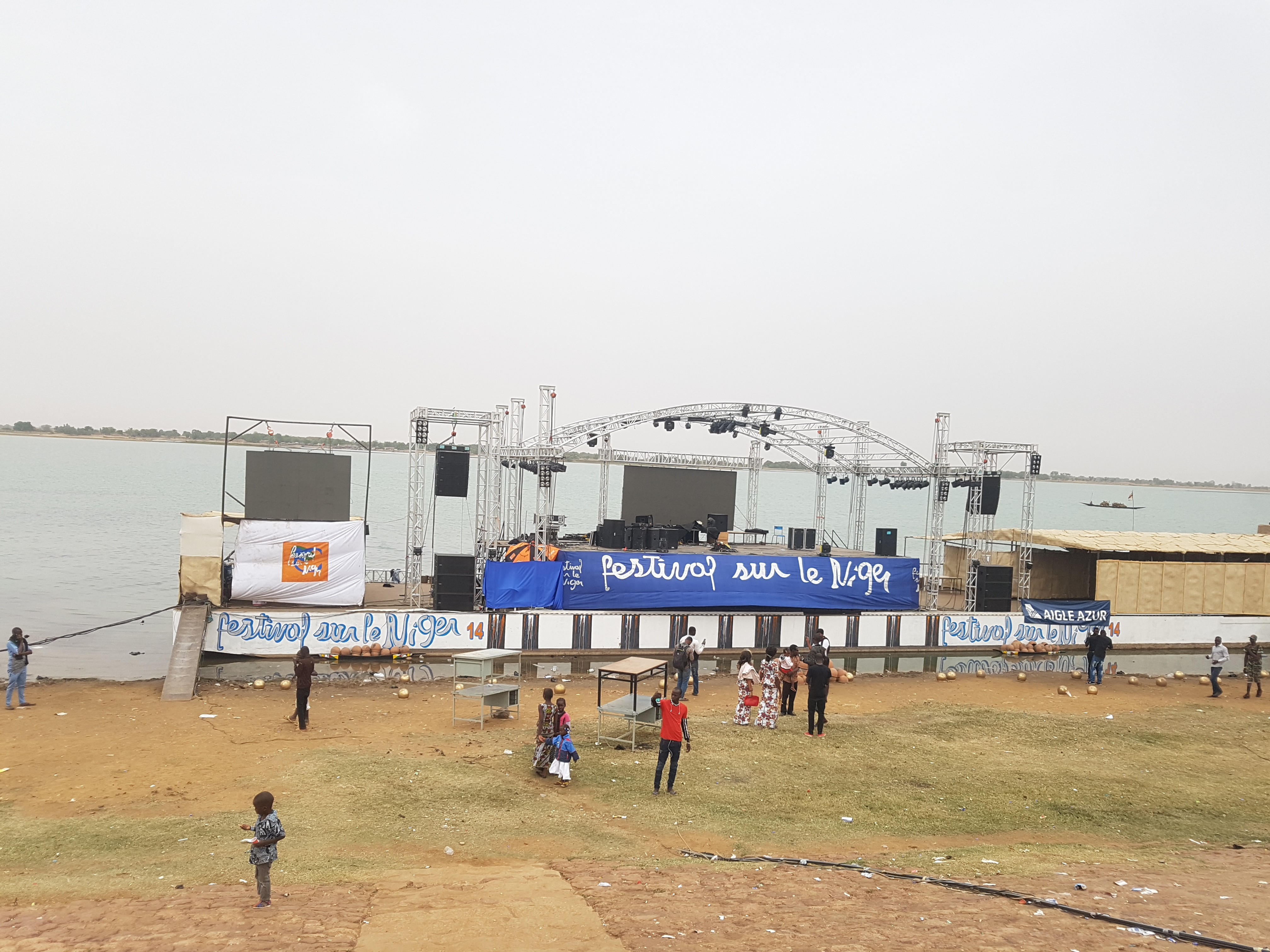 The Festival sur le Niger is a festival of music and art that takes place every year in Ségou, Mali, in February. The festival has become an event of national importance, which attracts a lot of tourists and contributes greatly to the economic development of the city This is an image with the theme "Play" from: Mali